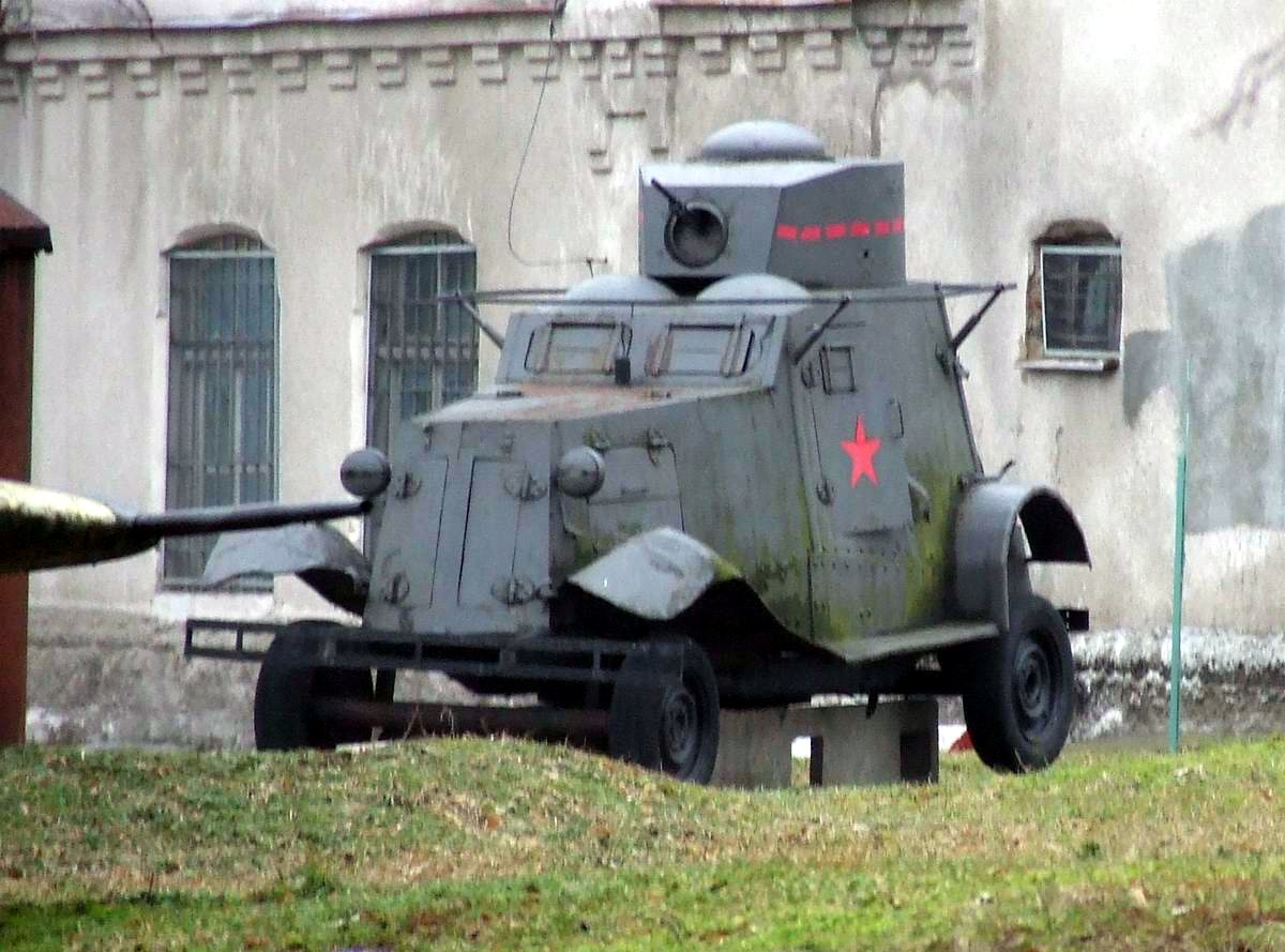 Russian FAI armoured car, 2nd w.w., stored at Border Guard Barracks in Białystok, Poland